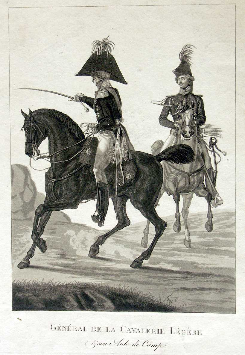 Uniform General of the cavalry with adjutant, 1812, epoch of the Napoleon armed forces, design by Lev Kiel.